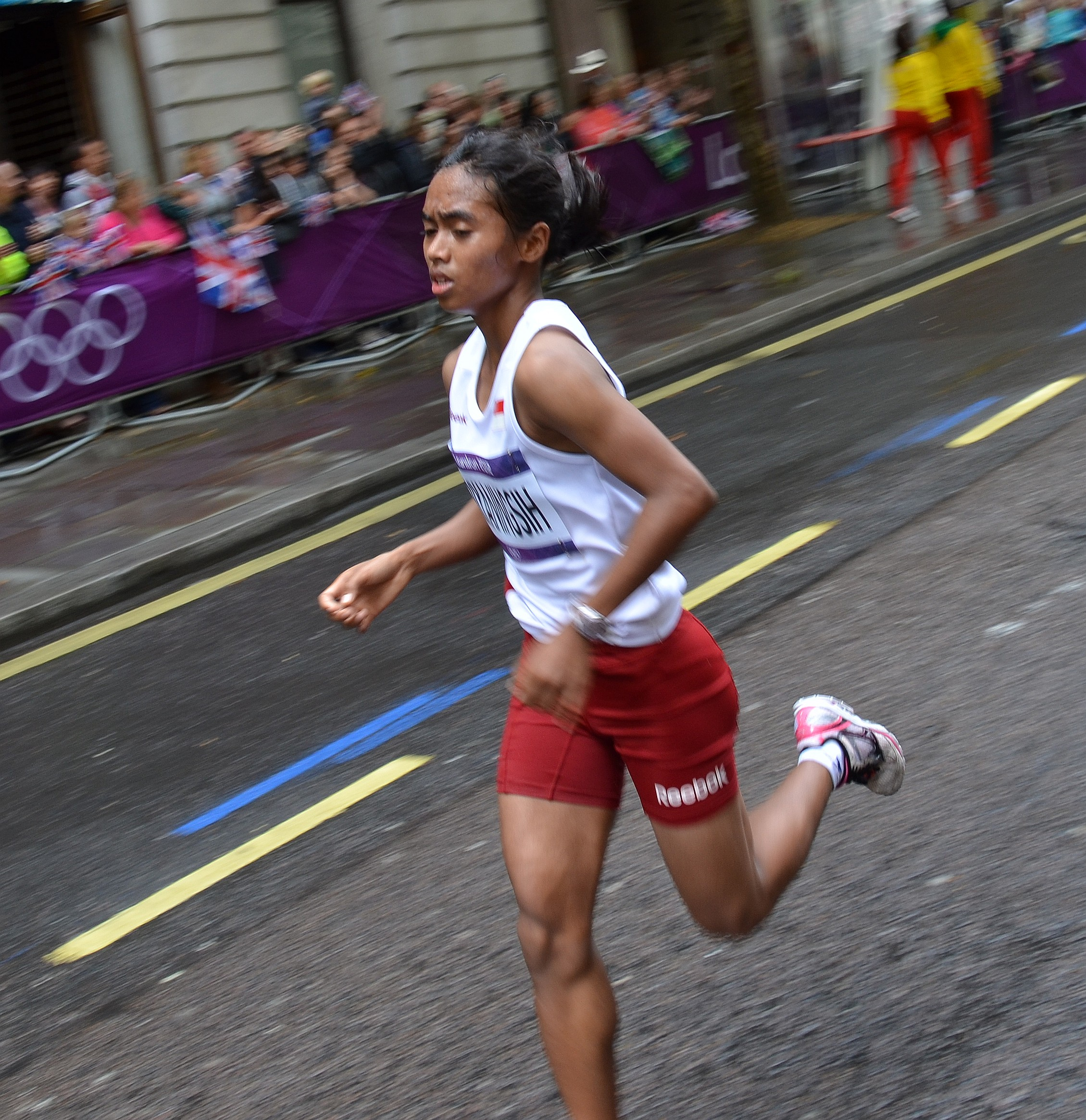 Triyaningsih (Indonesia) in the marathon (w) at the Olympic Games 2012